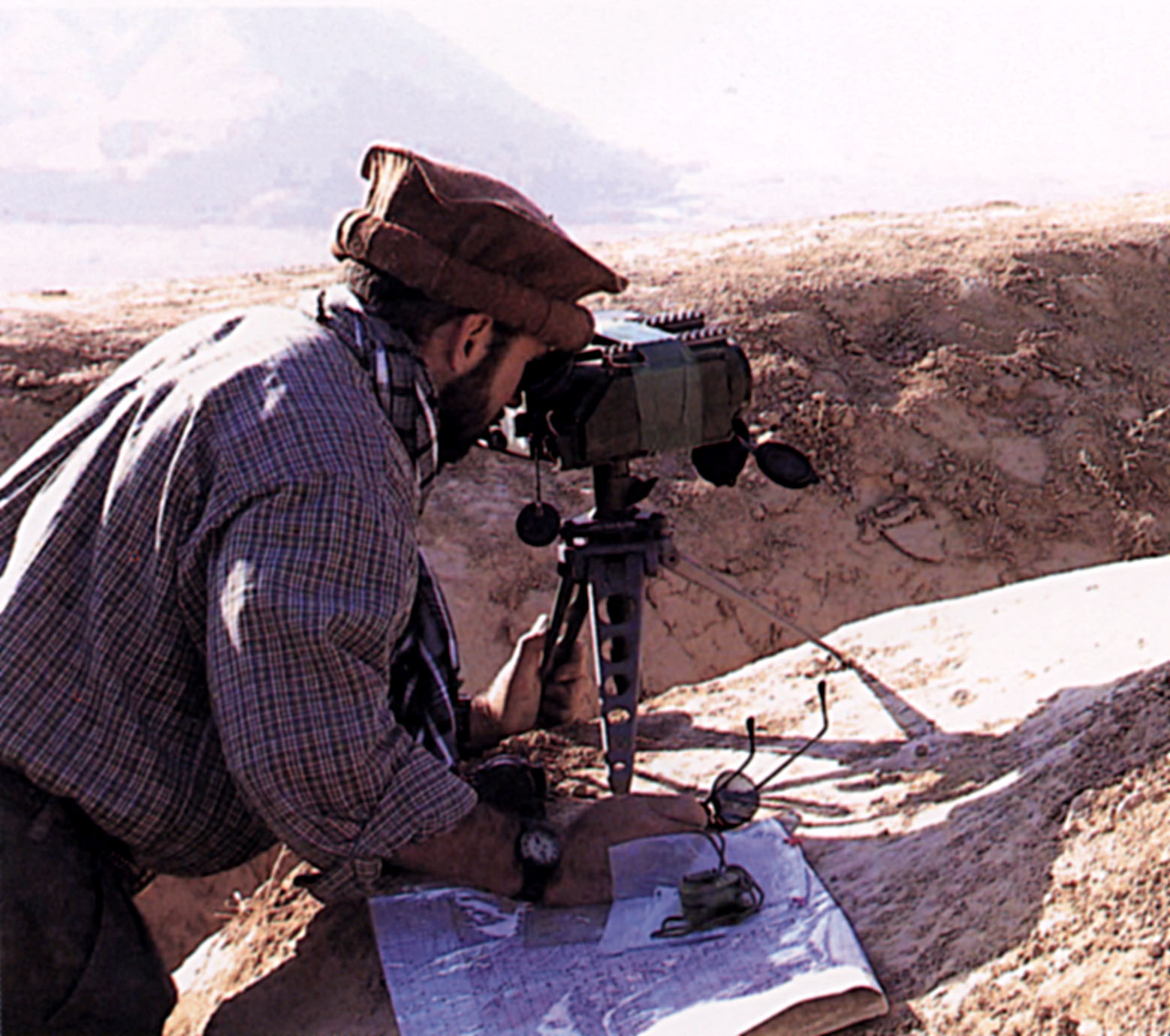 A Portable laser designator being used by a Special Operations captain in Afghanistan 2001 directing Air Force and Navy bombs.